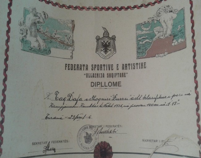 100 m viti 1936